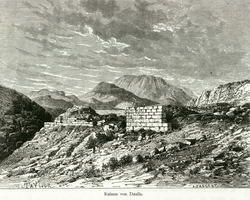 Amand Schweiger von Lerchenfeld. Griechenland in Wort und Bild, Eine Schilderung des hellenischen Konigreiches, Leipzig, Heinrich Schmidt & Carl Günther, 1887